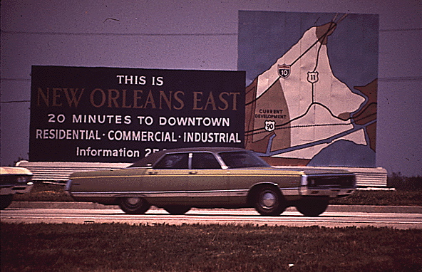 New Orleans, 1972. Shows automobile passing sign "This Is New Orleans East", promoting new subdivision being developed to east of the city. Billboard promoting the New Orleans East "New Town" development, 1972. Note the darker-toned 'Current Development' portion, encompassing present-day Village de L'Est and Oak Island, as well as Venetian Isles and a sliver of Irish Bayou. The light-toned portion is now mostly Bayou Sauvage National Wildlife Refuge.